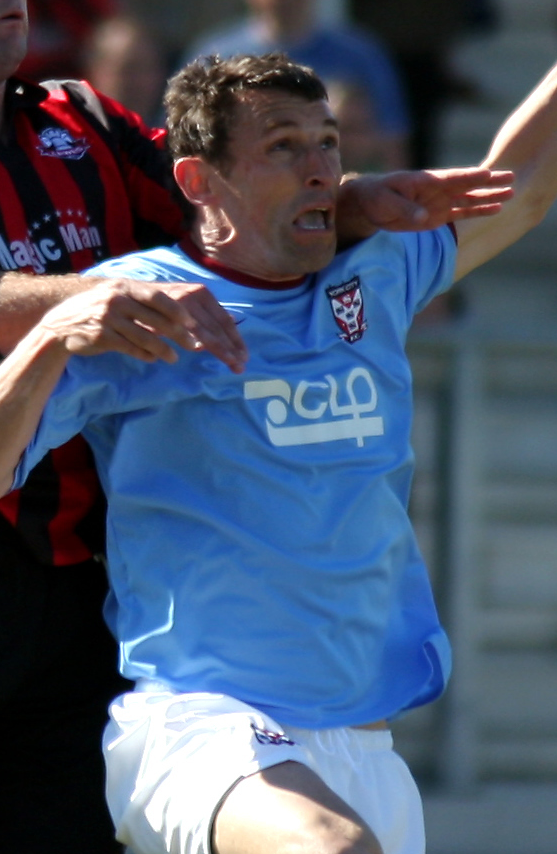 Steve Torpey